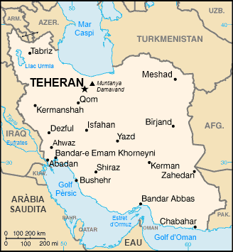 Map of Iran in Catalan.